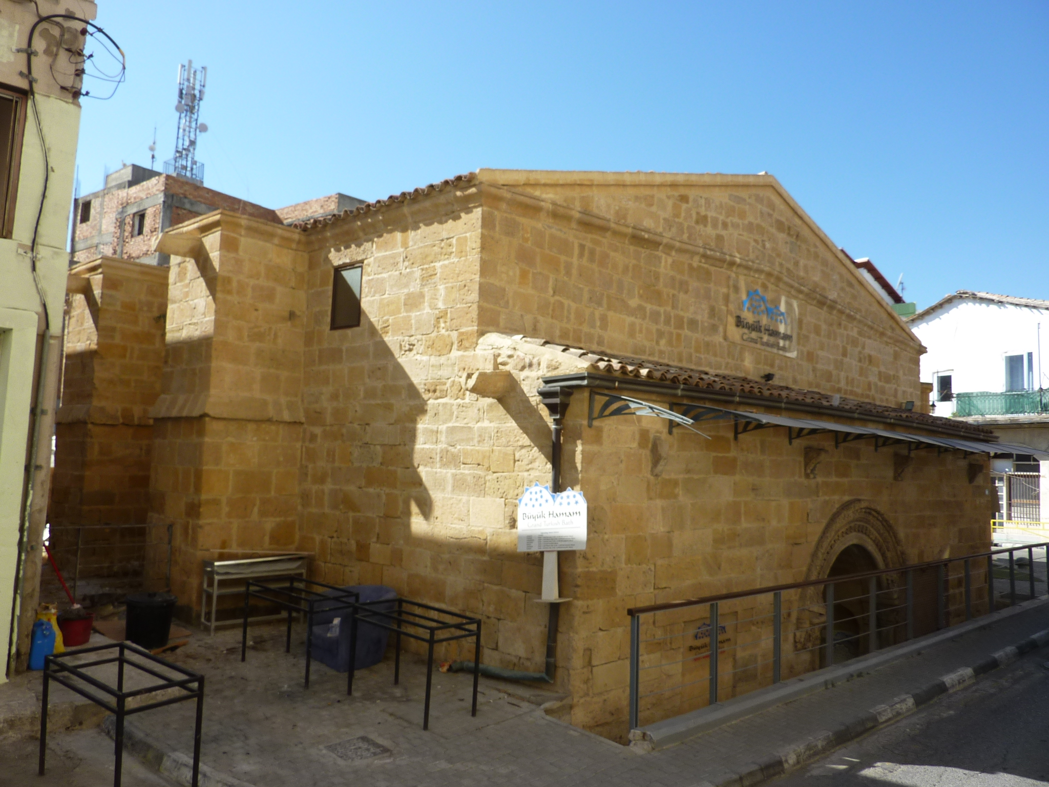 Büyük Hamam (St George of the Latins), Nicosia